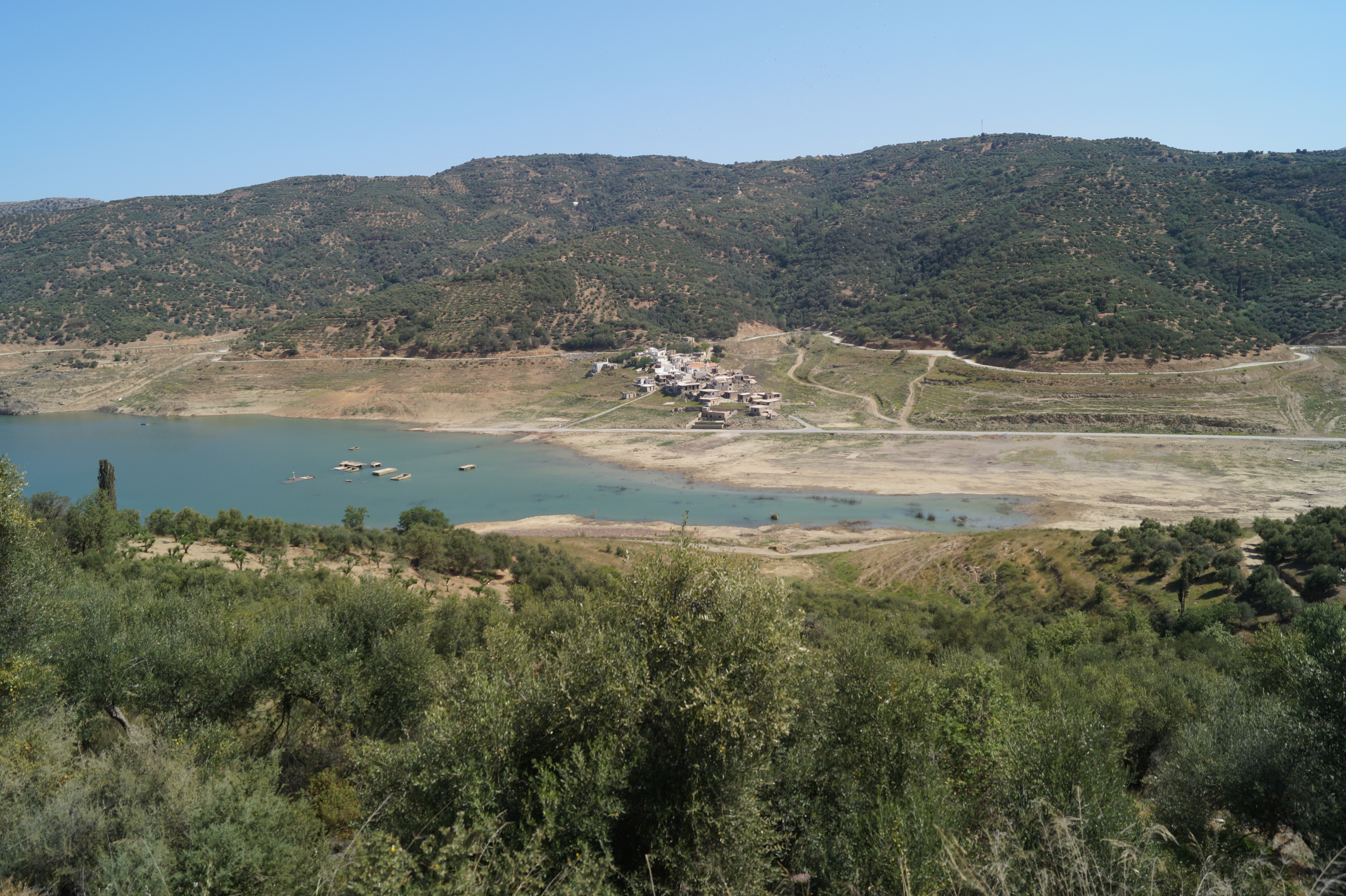 Hersonissos (Municipality), Crete, Greece: Aposelemis water reservoir and abandoned village Sfendhili.